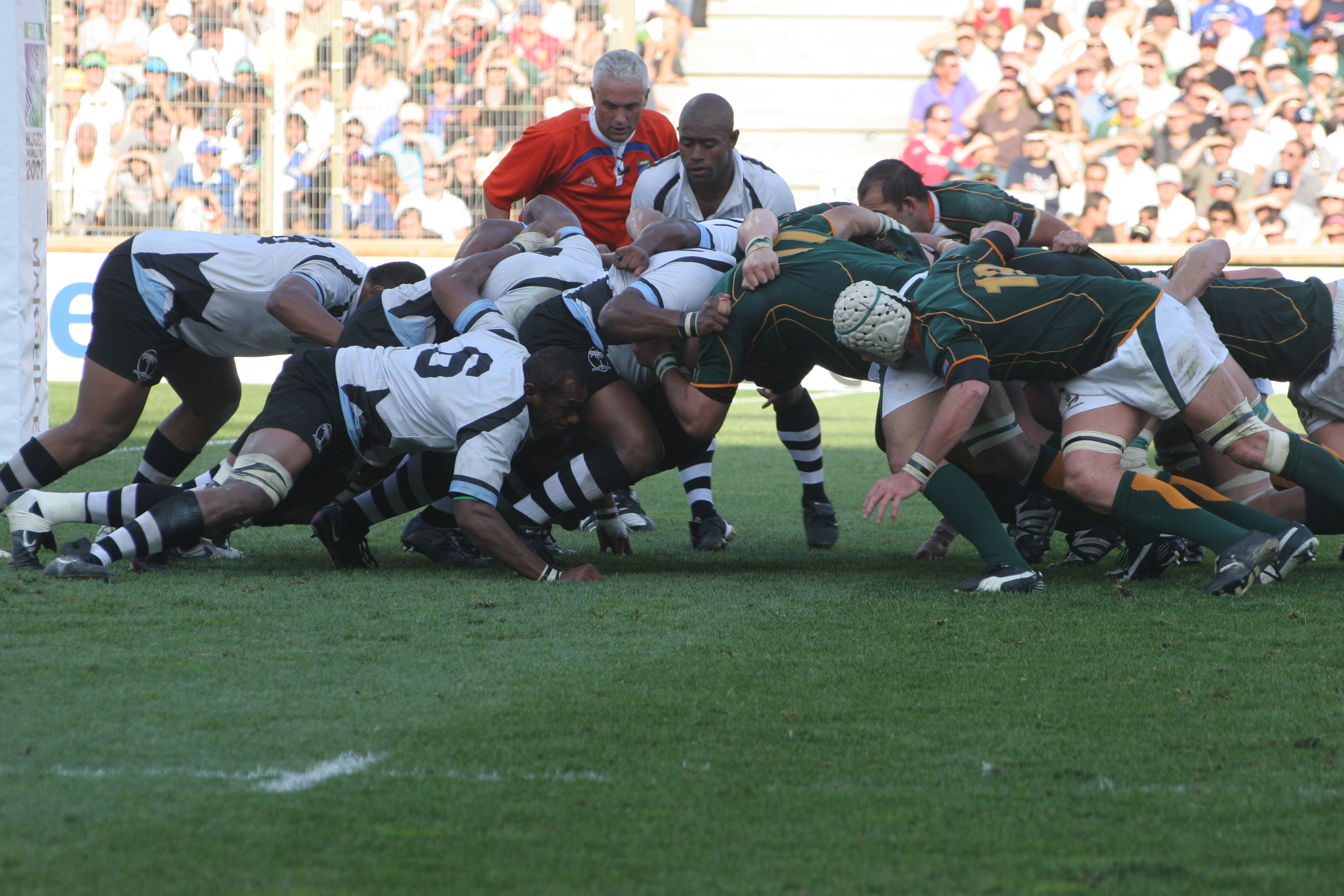 Match between South Africa and Fiji during 2007 Rugby World Cup in Marseille (France).